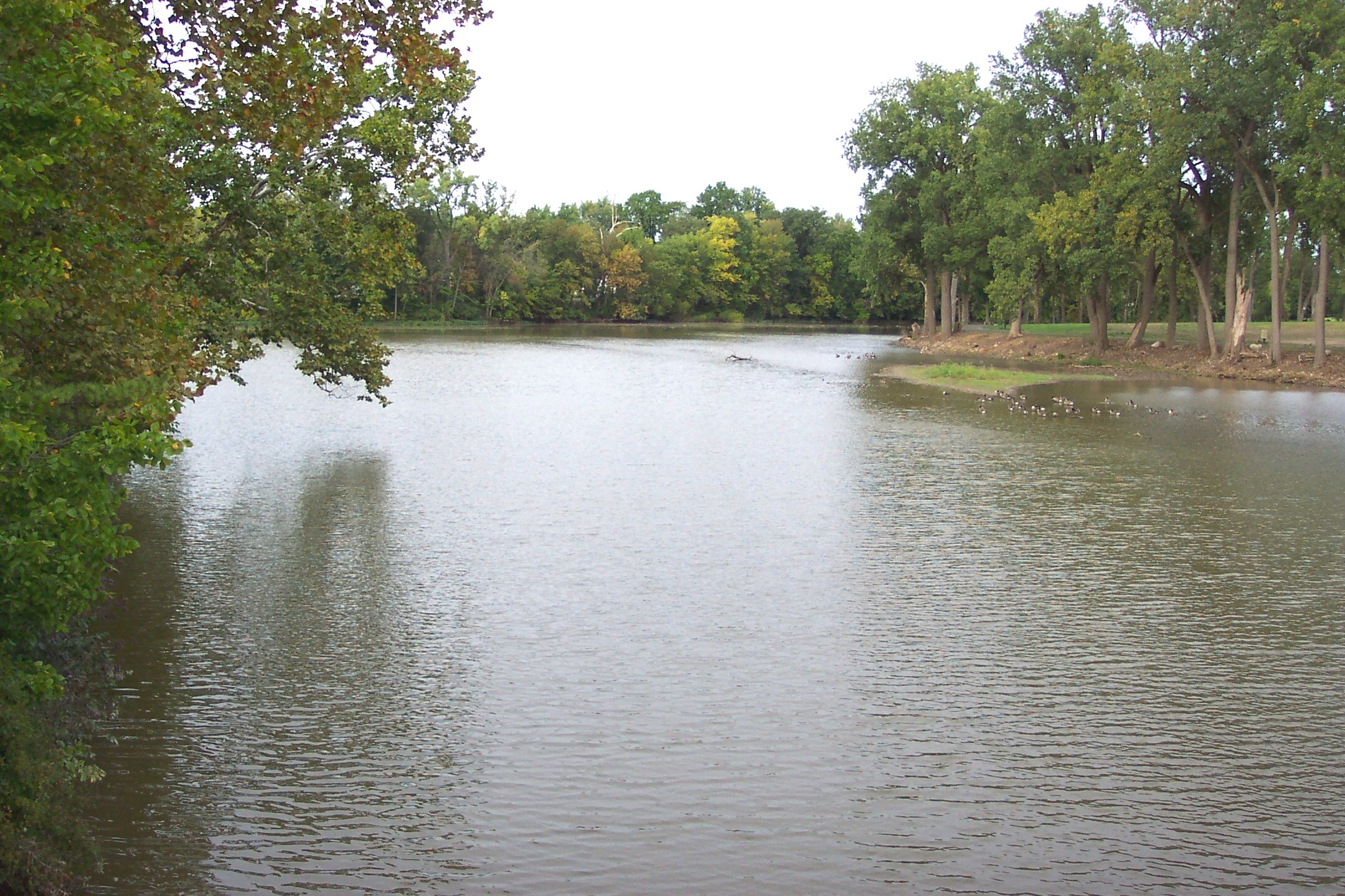 The Blanchard River as seen from Riverside Park in Findlay, Ohio, United States.